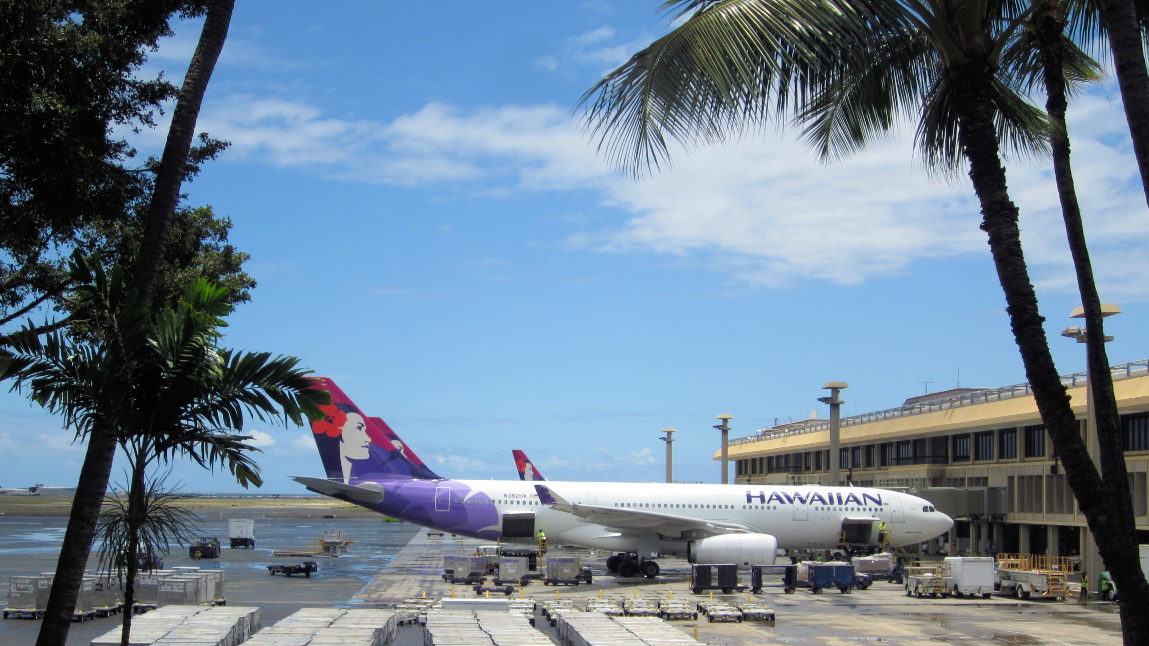 An Hawaiian Airlines A330-200 at Honolulu International Airport, Oahu, Hawaii